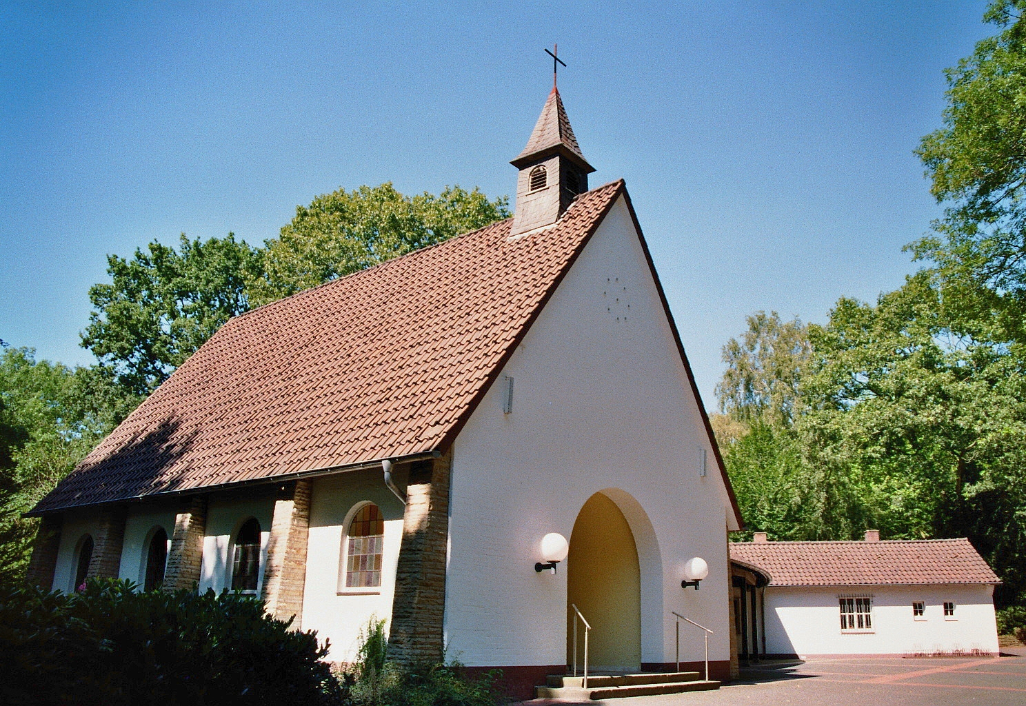 Chapel of the Central Cemetery (Zentralfriedhof) in Ibbenbüren, Kreis Steinfurt, North Rhine-Westphalia, Germany.